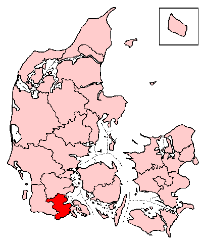 Map of Aabenraa County 1793-1970